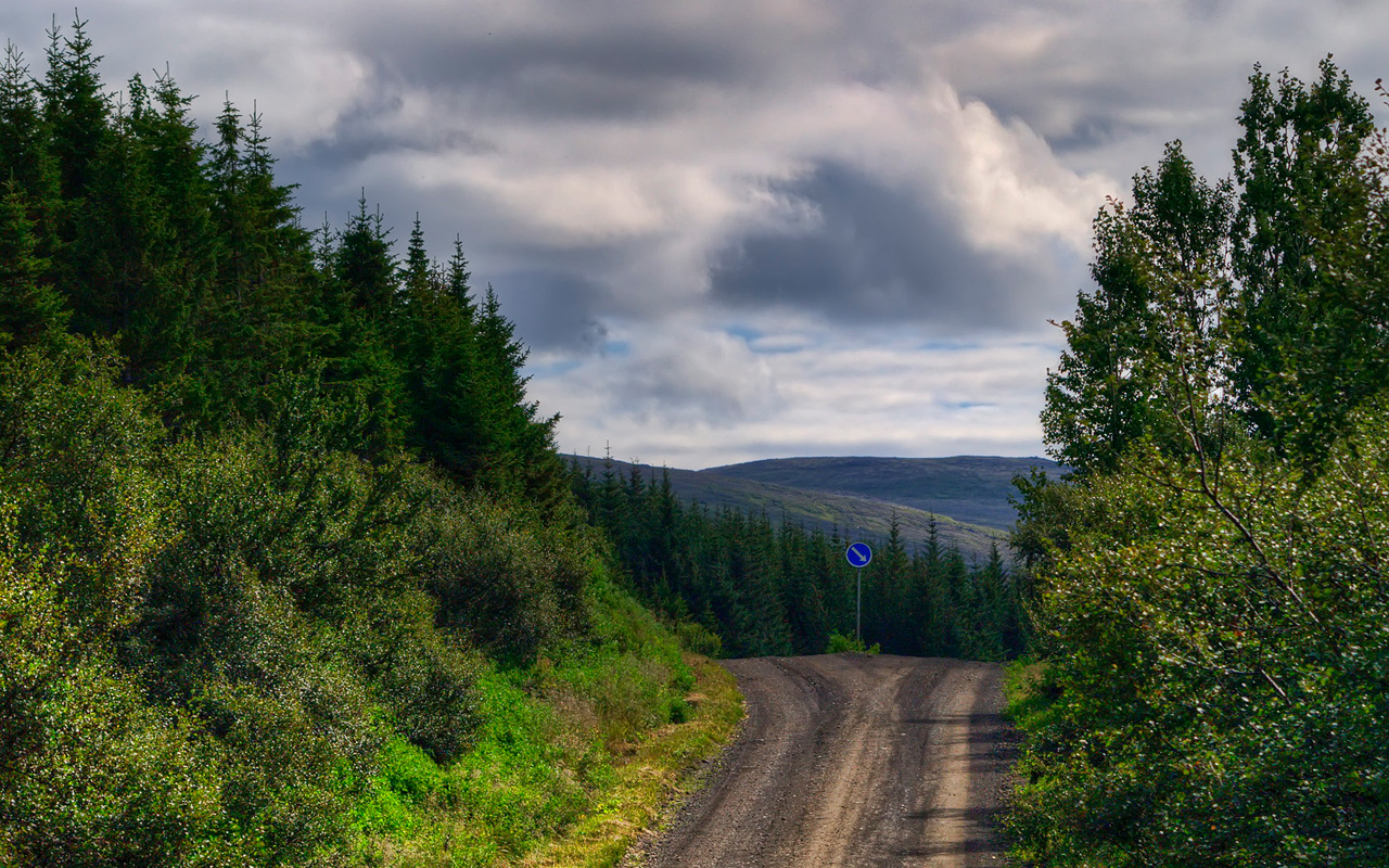 The forest of Stálpastaðir in Skorradalur (Iceland).